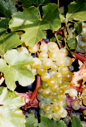 Cluster of Ventura grapes